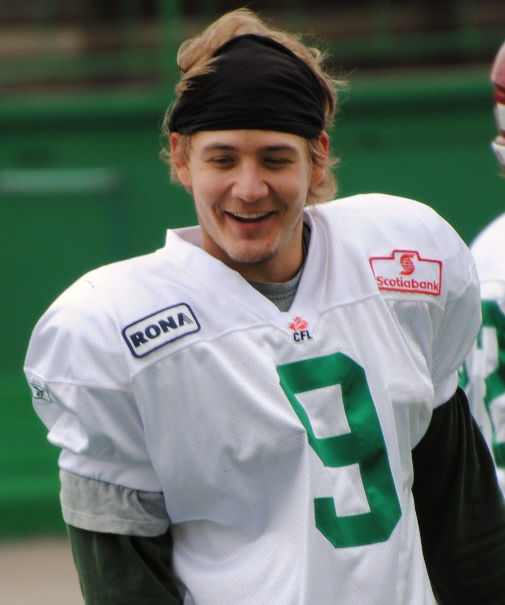 Scott McHenry during a Saskatchewan Roughriders practice.